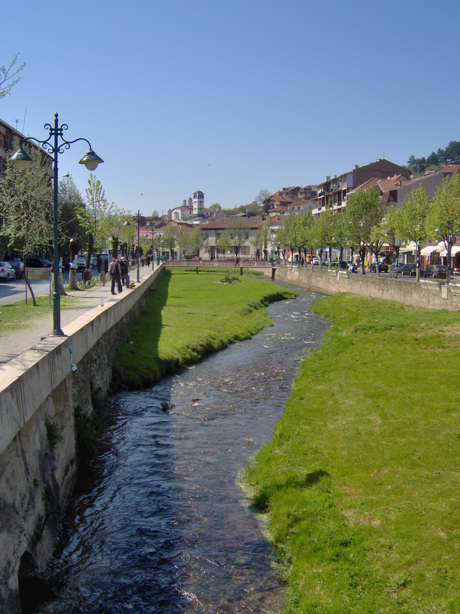 Kočani river through Kočani, Republic of Macedonia